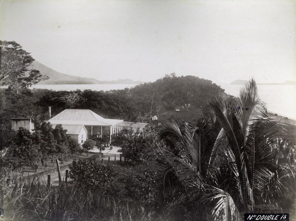 Looking from Buchan (Palm Cove) to Buchan Point with Double Island in the distance, circa 1890